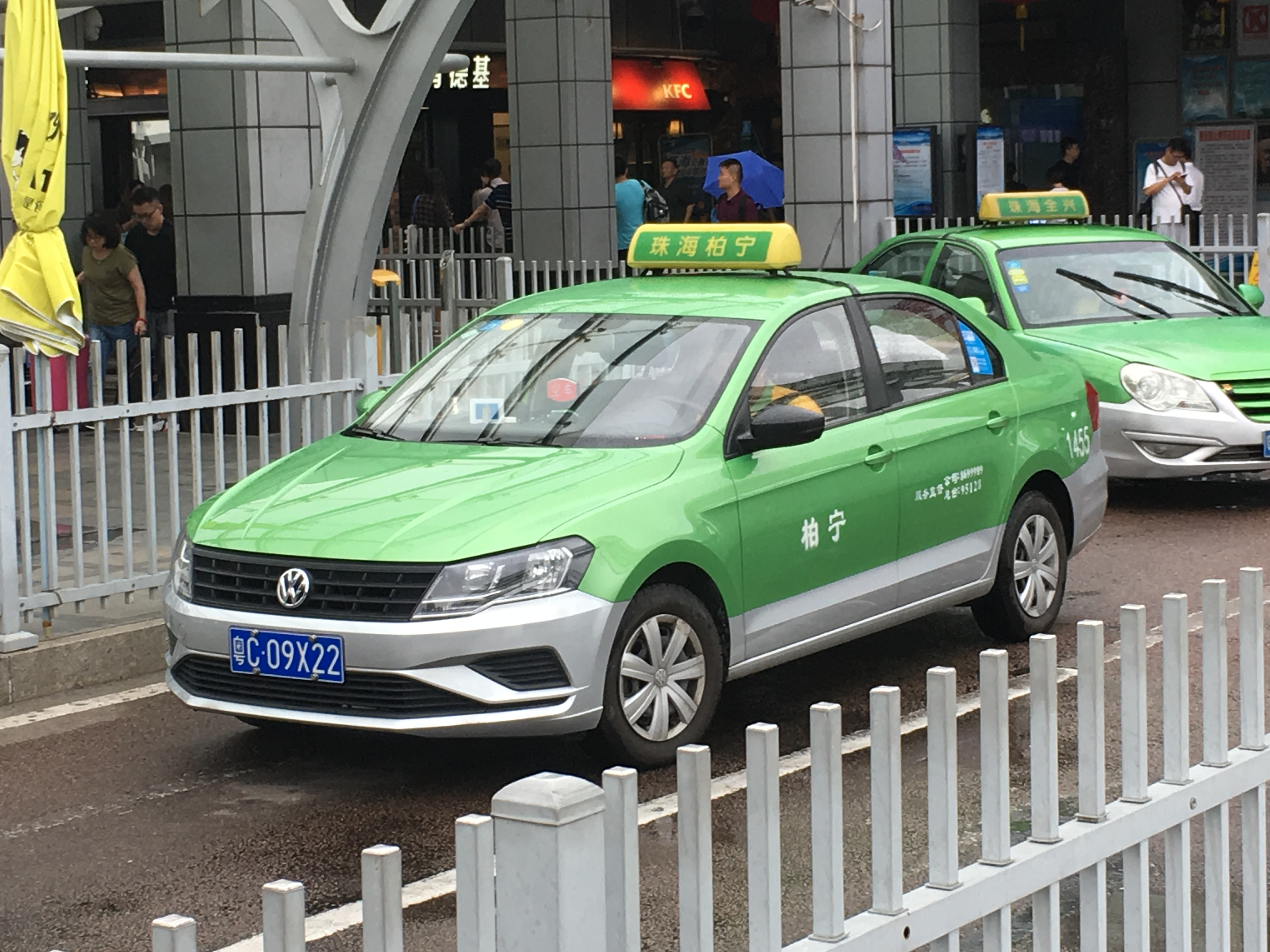 中文（香港）: This photo is taken in Jiuzhou Port.